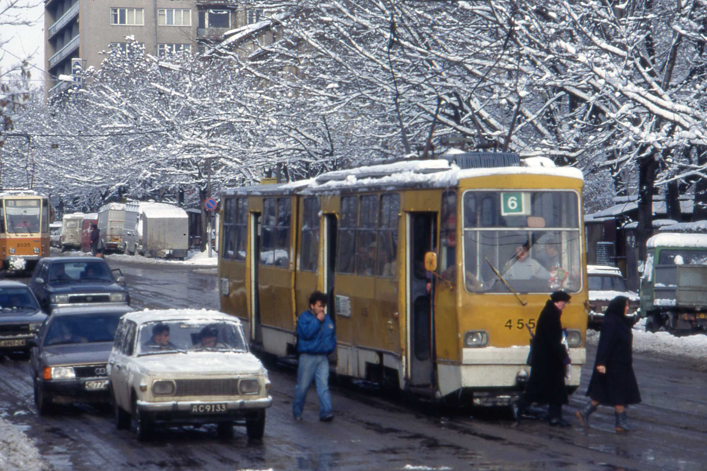 Sofia,(София), Bulgaria. The Bulgaria Post Office collected from letter boxes on these home made trams. A nice busy street scene, with snowy Wartburg to the fore. Car no.455 a Sofia 100 of which 67 were originally in service. (see excellent web-site below) , followed by Tatra 2035. Routes 6 and 9 on same track. see list of routes.